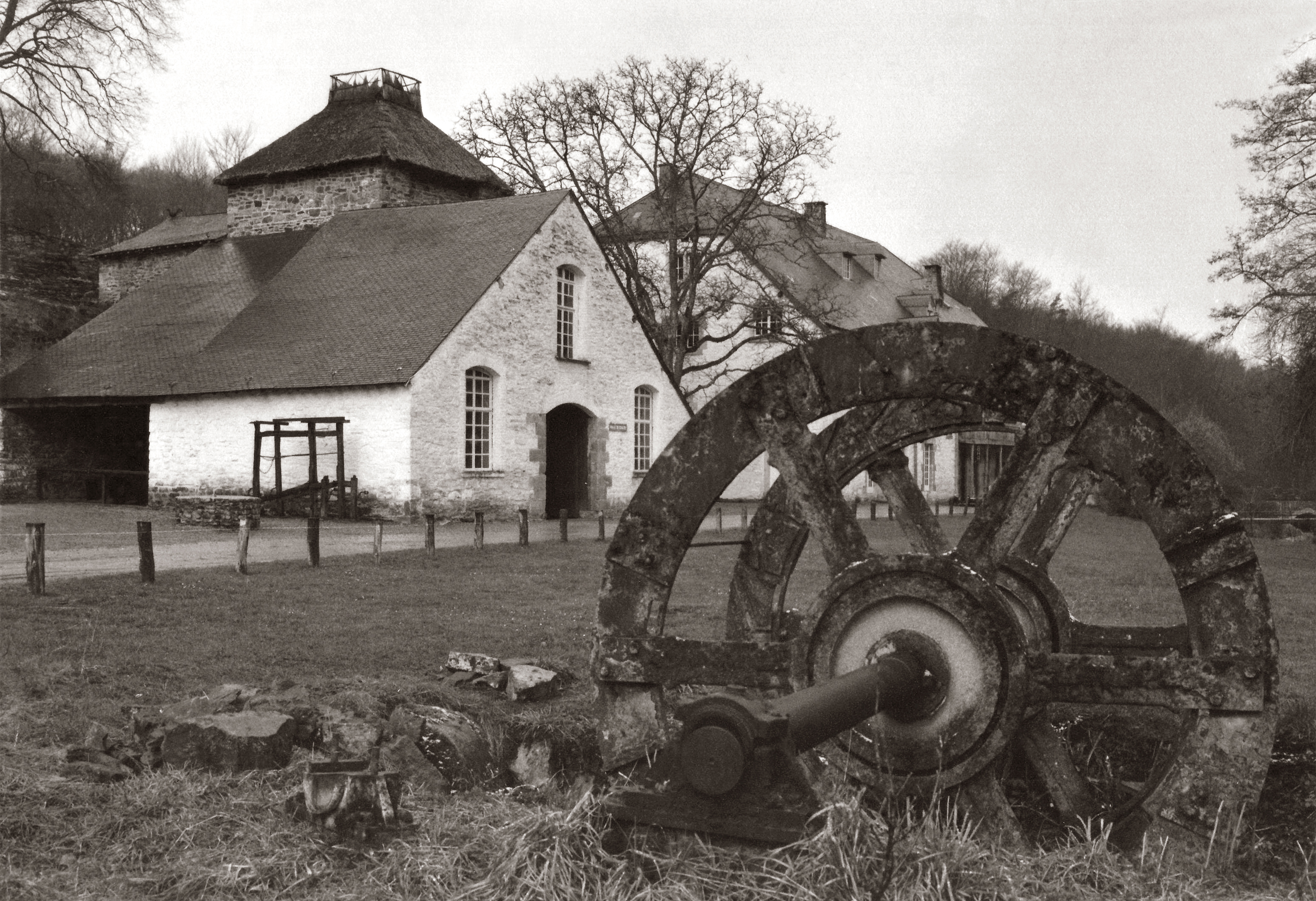 Saint-Hubert (Belgium), the Saint Michel furnace.